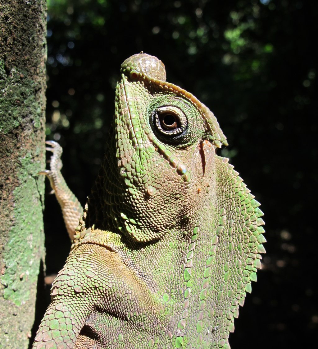 Hump-nosed Lizard, Lyriocephalus scutatus, Sri Lanka